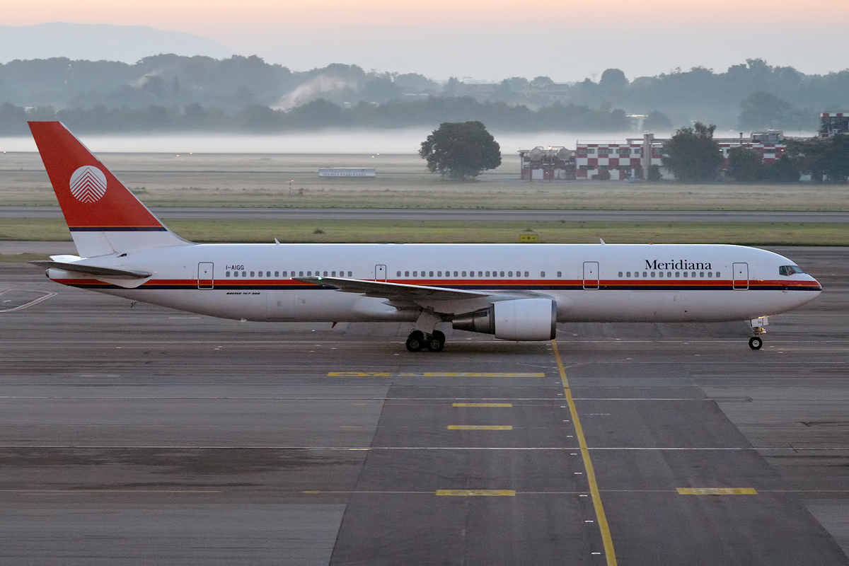 Meridiana Boeing 767-300ER at Milan Malpensa Airport